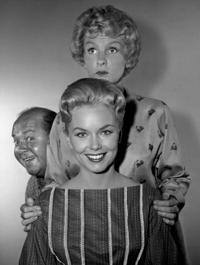 Photo of Shirley Bonne (front) and Stubby Kaye (back) from the television program My Sister Eileen. The standing woman is Elaine Stritch, who played the role of the older sister, Ruth.